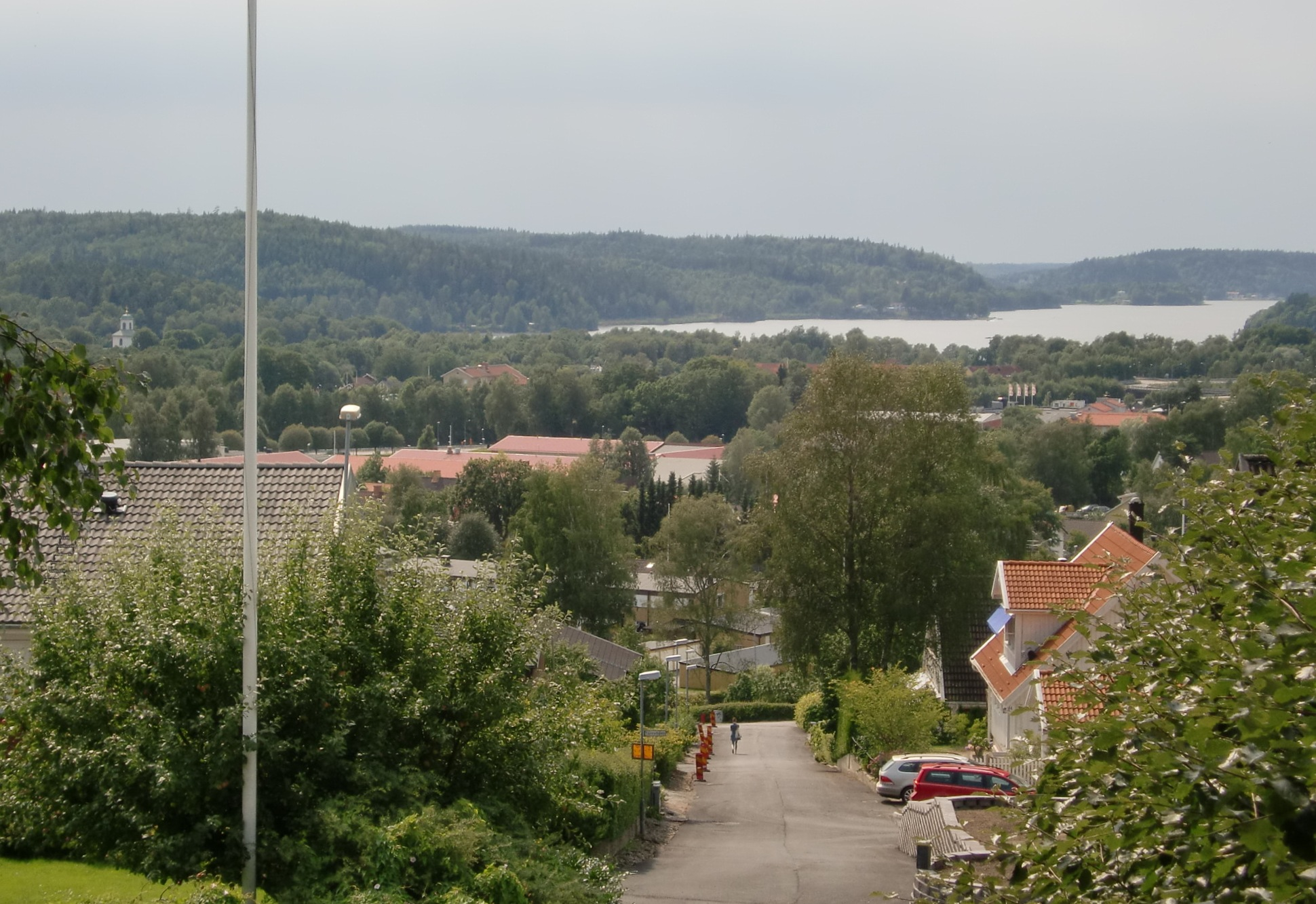 View of Landvetter community near Gothenburg, from the east.